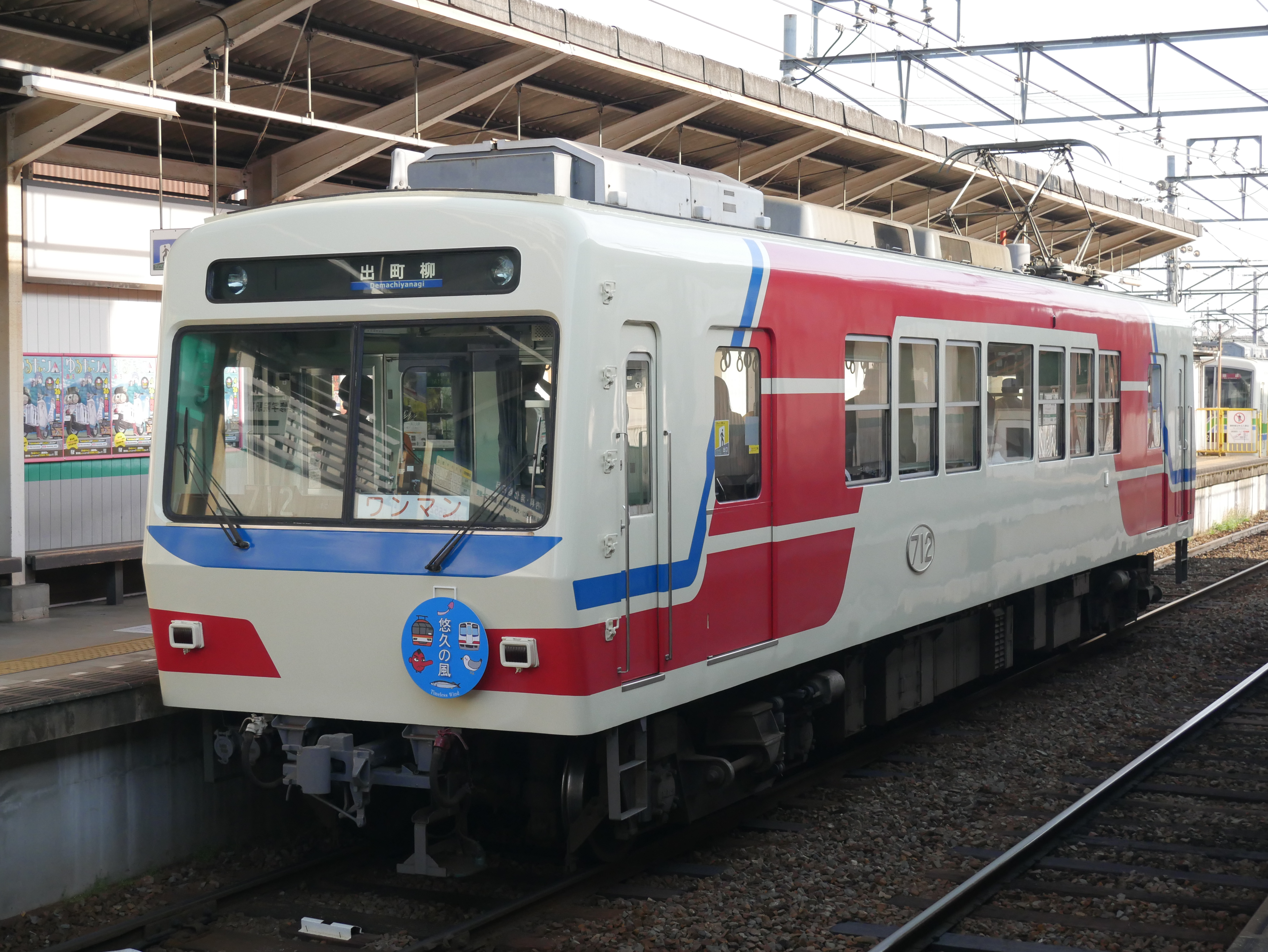 Eizan Electric Railway DEO 712 Hiei with Sanriku Railway livery at Shugakuin station